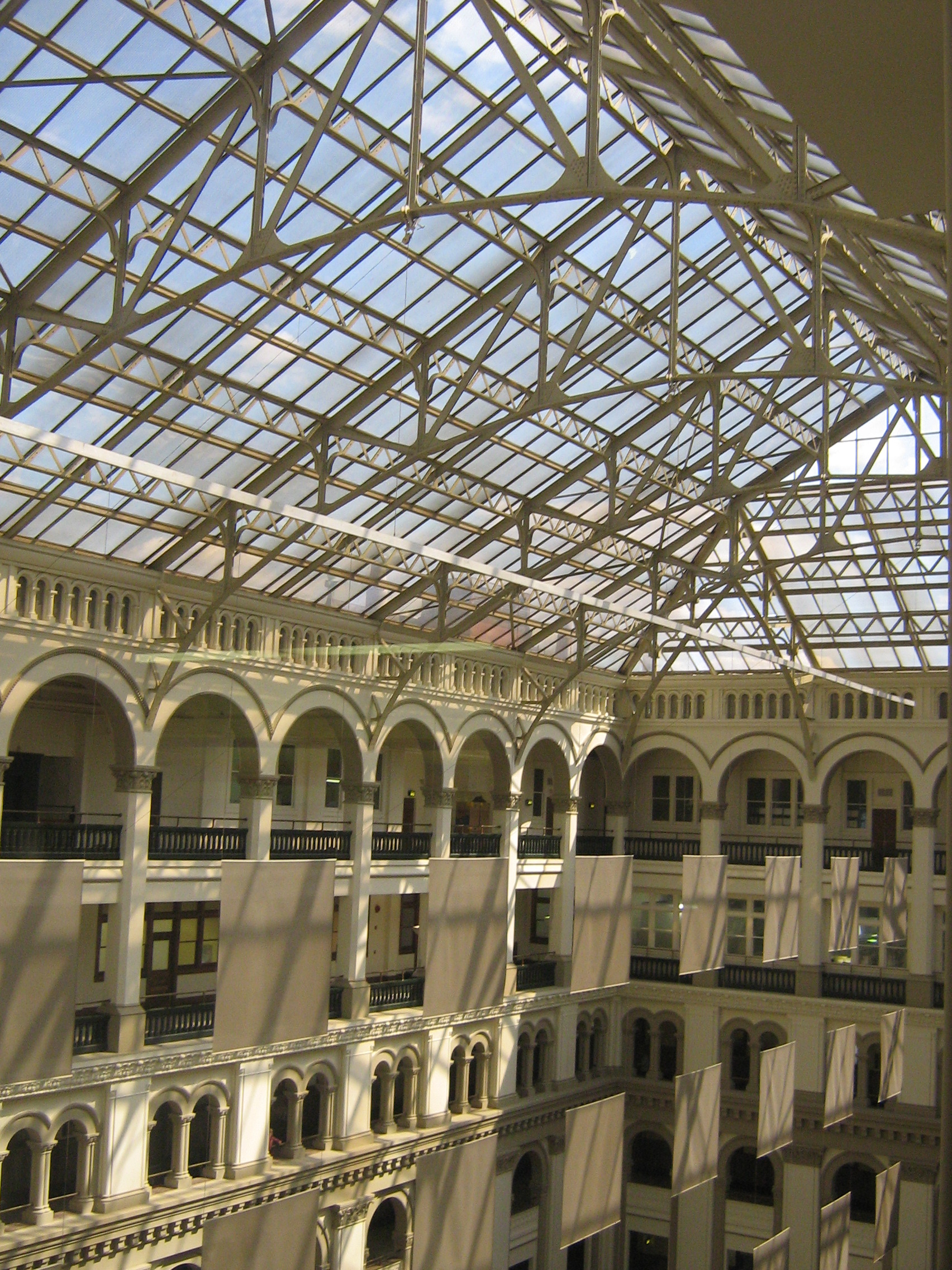 Interior of Old Post Office Building, Washington, D.C.